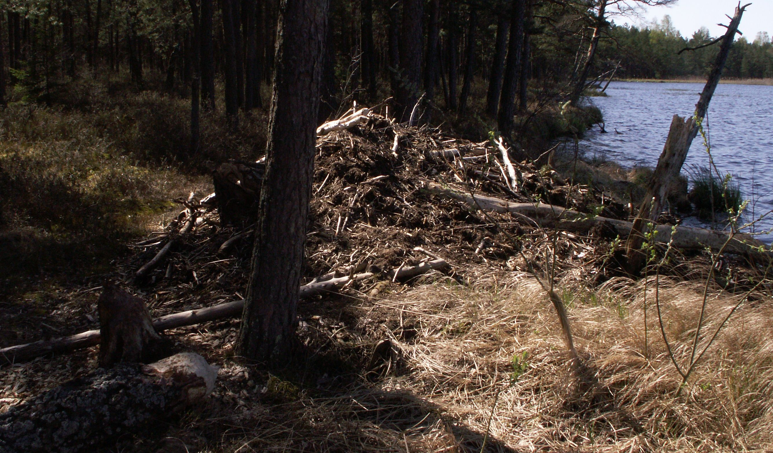 Castor fiber, Pravirsulis, Lithuania